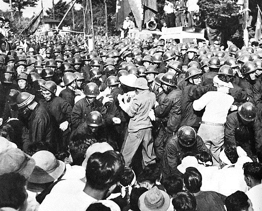 Sunagawa Incident